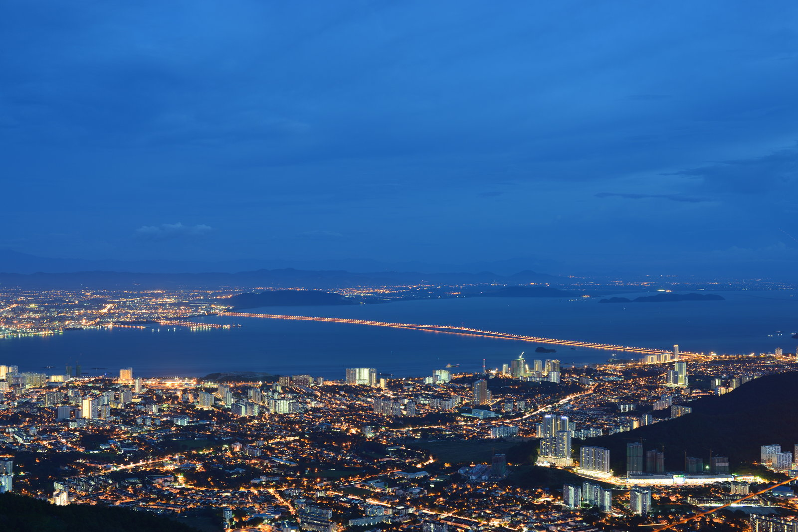 A view of the southern area of Gerogetown, Gelugor, the Mainland (Seberang Perai) and Penang Bridge